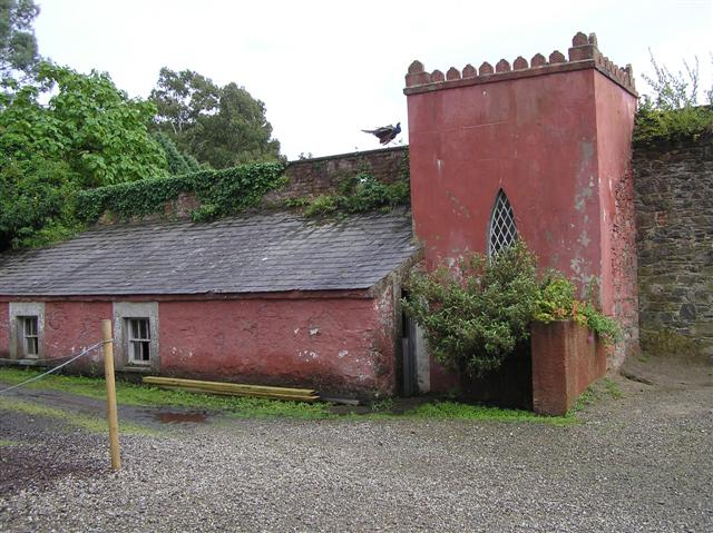 Seaforde Gardens and Tropical Butterfly House There's a peacock perched on the roof.